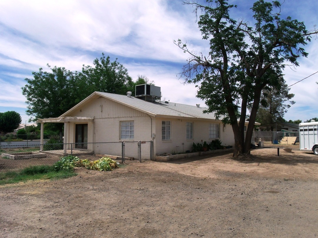 The first Russian Molokans Church (Spiritual Christians) in Glendale built in 1950 and located at 7402 Griffin Ave. The structure was re-addressed as 6404 75th Ave. The first members of this religion arrived in Glendale in 1911. It was at one time the spiritual center for 200 families.